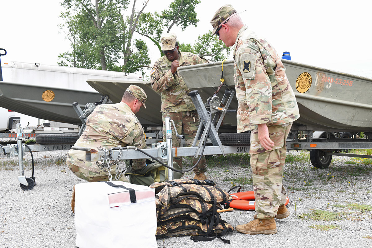 Soldiers with the 769th Brigade Engineer Battalion conduct inspections and test high-water vehicles, flat bottom boats and boating equipment in preparation for the state activation in support of Tropical Storm Barry, July 10, 2019, at the Armed Forces Reserve Center, Baton Rouge, La. Louisiana's Guardsmen are trained, ready and equipped to stand up at any moment to protect lives and property, maintain communications, and ensure the continuity of operations and government. (U.S. Air National Guard photo by Master Sgt. Toby M. Valadie)